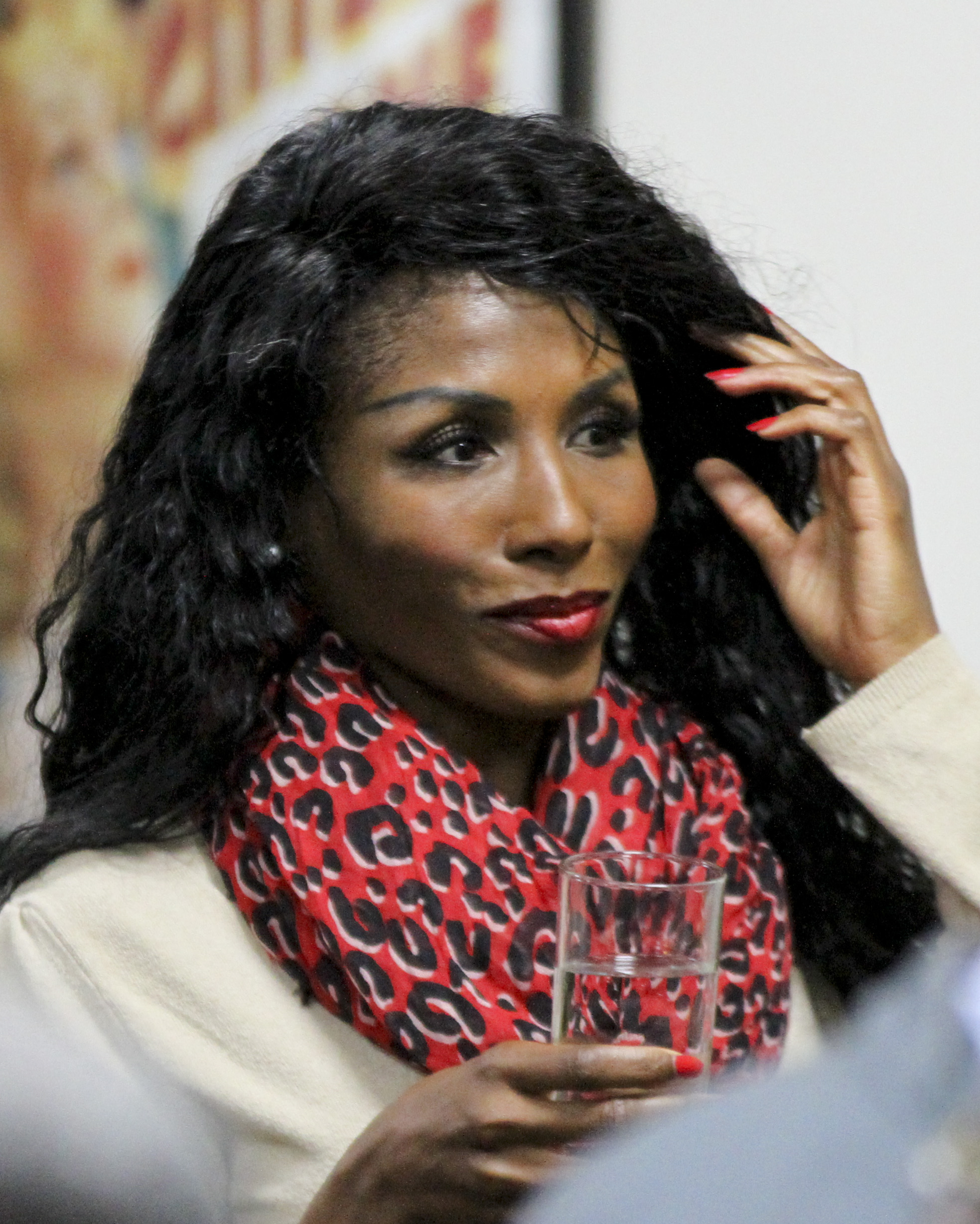 Sinnita